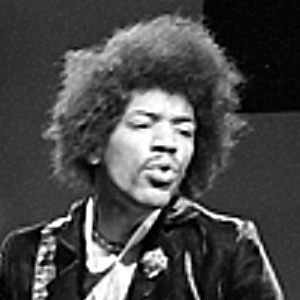 Hendrix